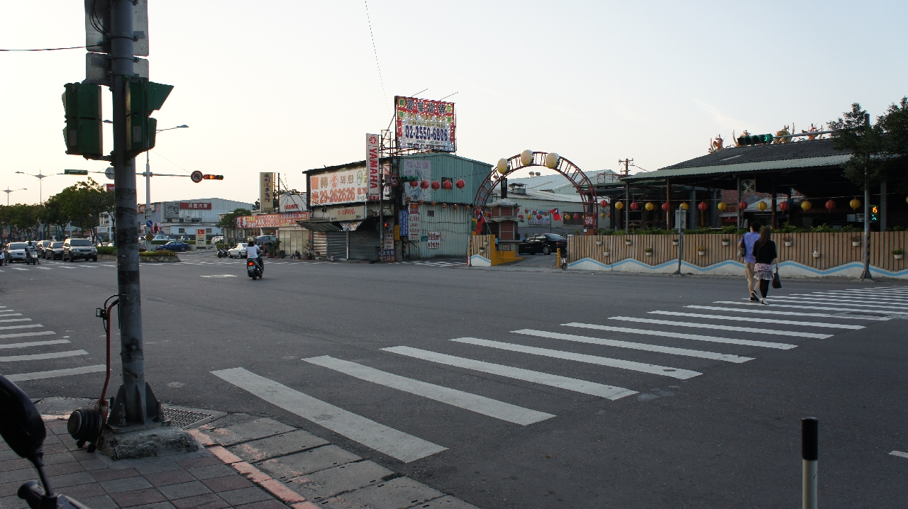 Southern entrance to Lane 180, Binjiang Street, Zhongshan District, Taipei City.